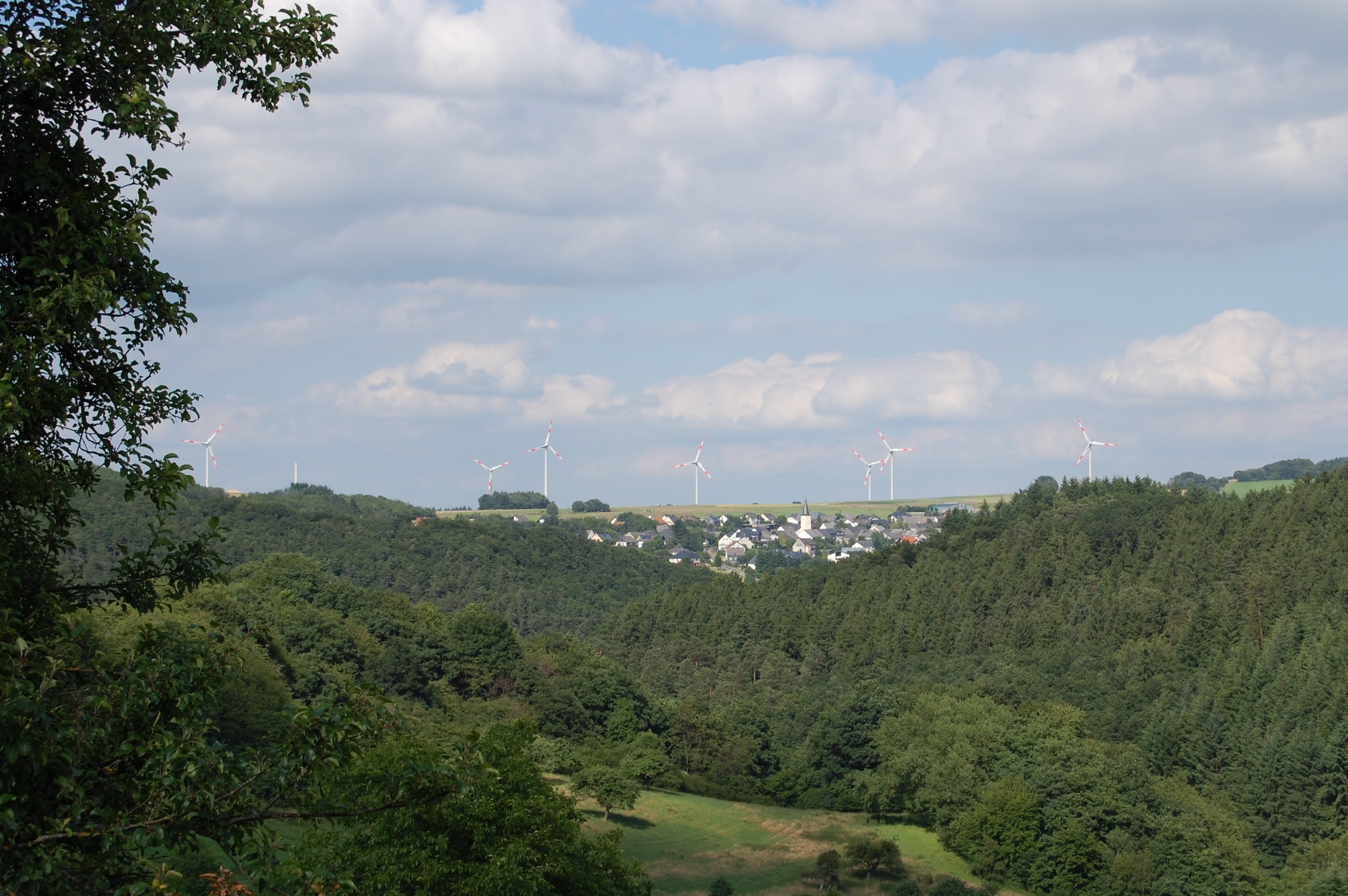 Village Lorscheid in the Hunsrück landscape, Germany.